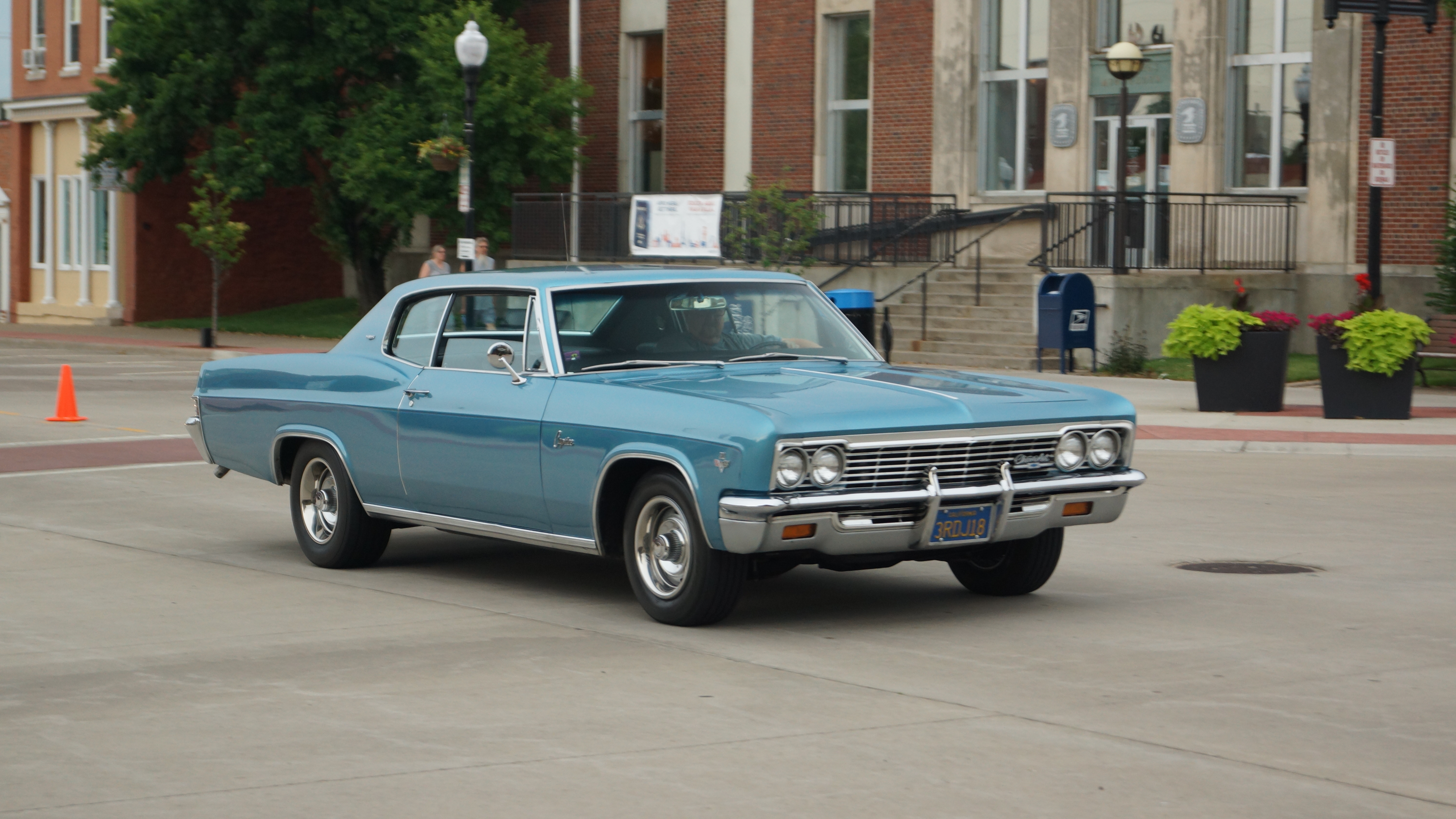 HISTORIC DOWNTOWN HASTINGS CRUISE-IN & CLASSIC CAR SHOW Hastings, Minnesota June 30, 2018 Click here for previous Hastings Cruise Night pictures Click here for more car pictures at my Flickr site. Or here for my Car Crazy Tumblr site. Or on Twitter @DVS1mn.